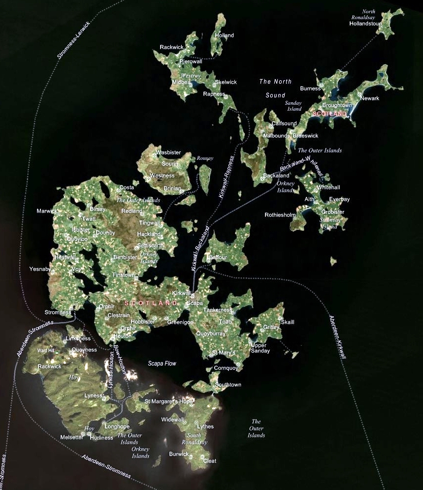 Aerial Image of the Orkney Islands